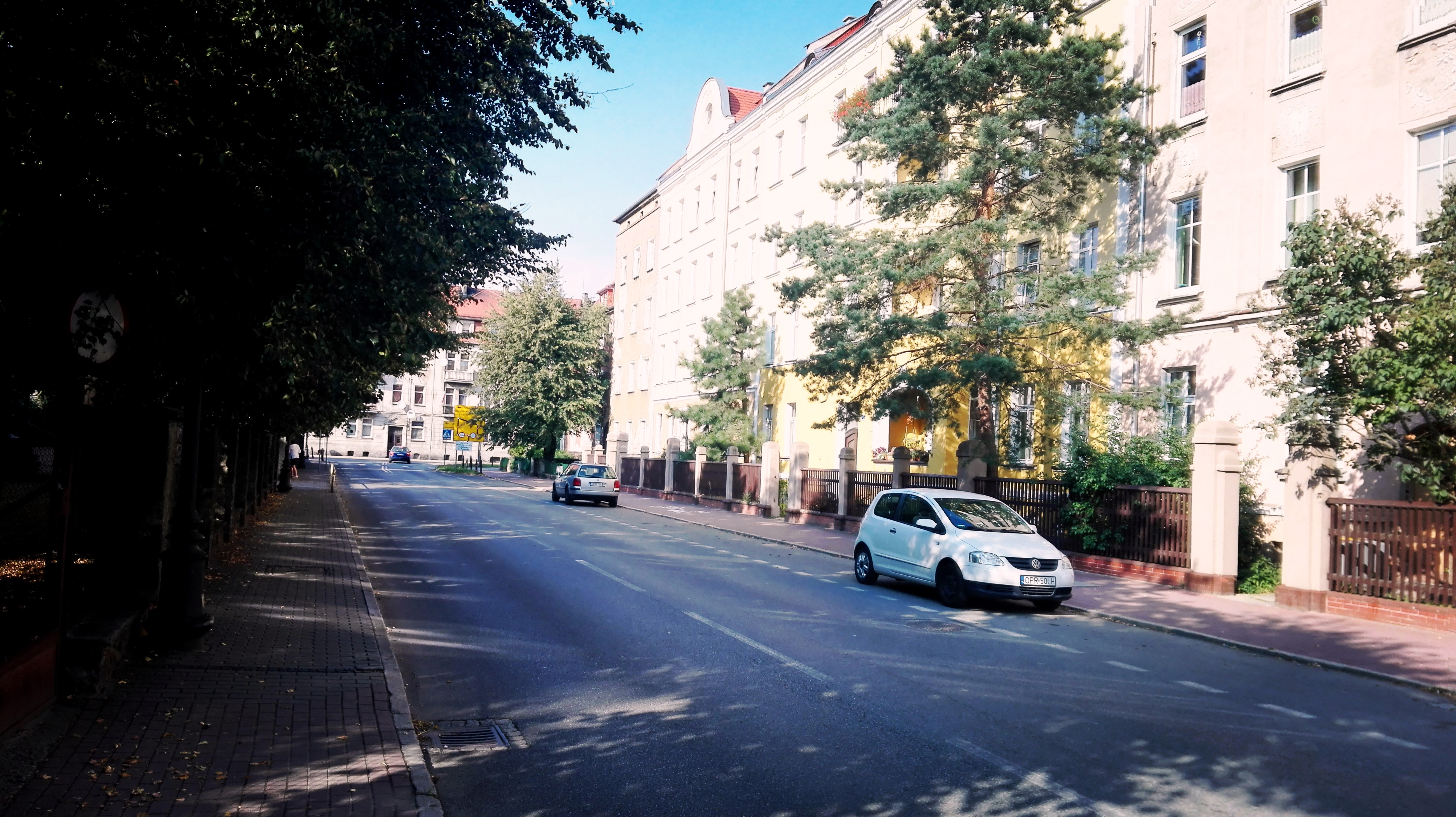 Jarosława Dąbrowskiego Street in Prudnik